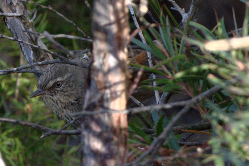 Chestnut-rumped Heathwren, Royal National Park, near Sydney, NSW, Australia